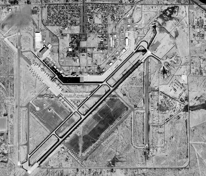 USGS digital orthophoto of Roswell International Air Center in Roswell, New Mexico, United States